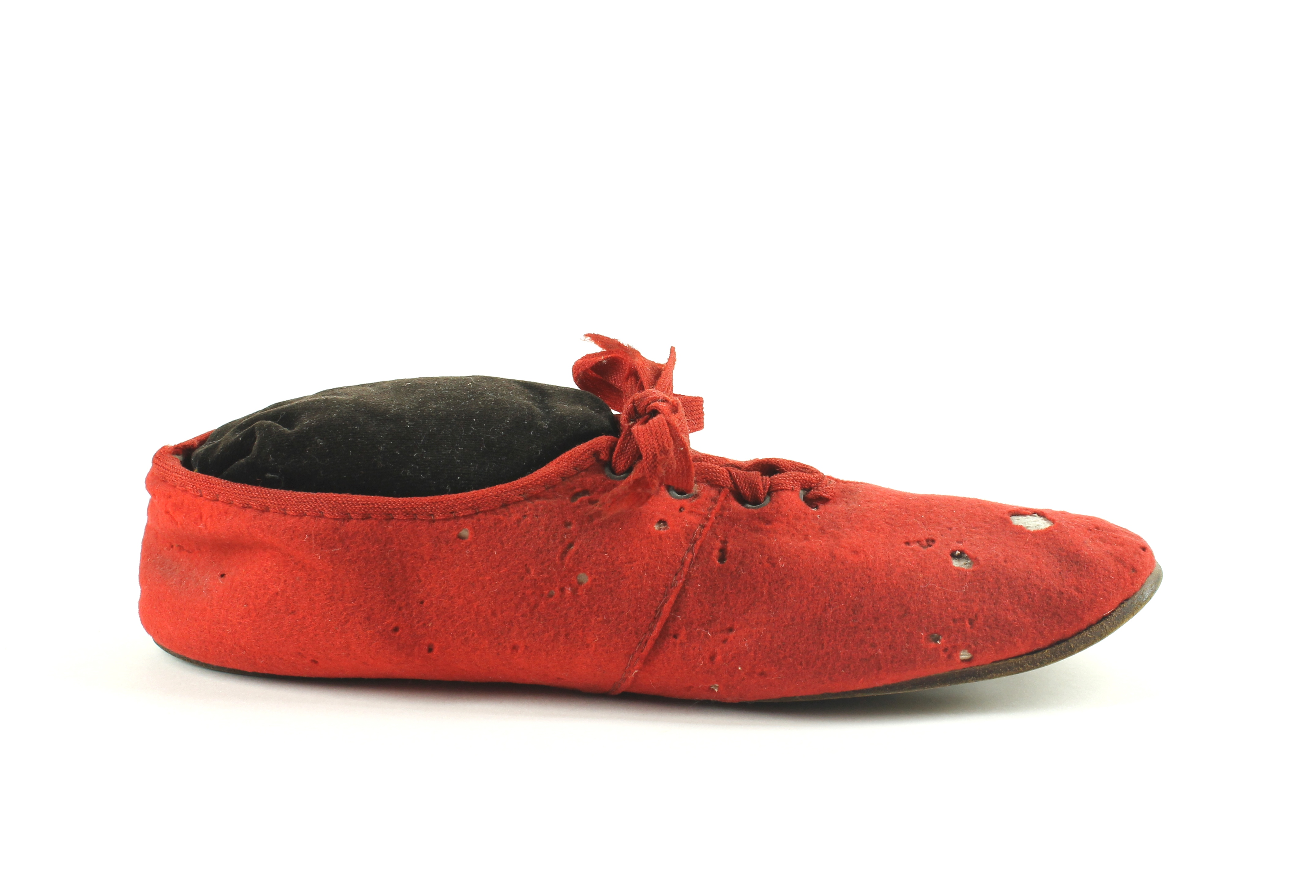 Clerical shoe in red fabric with leather sole, 19th century